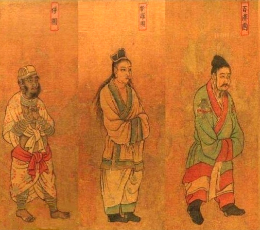 6th century CE, envoys (ambassadors) visit China (Tang dynasty). Left to right: Wa (Japan), Silla and Baekje (Korean kingdoms). Silla and Baekje were tributary kingdoms of China. Japan was outside the Tributary system of China. It was not a vassal of China in the 6th century. It's diplomatic stance was more of equal powers, which infuriated the Tang dynasty. So they depicted the Japanese envoy as less civilized.